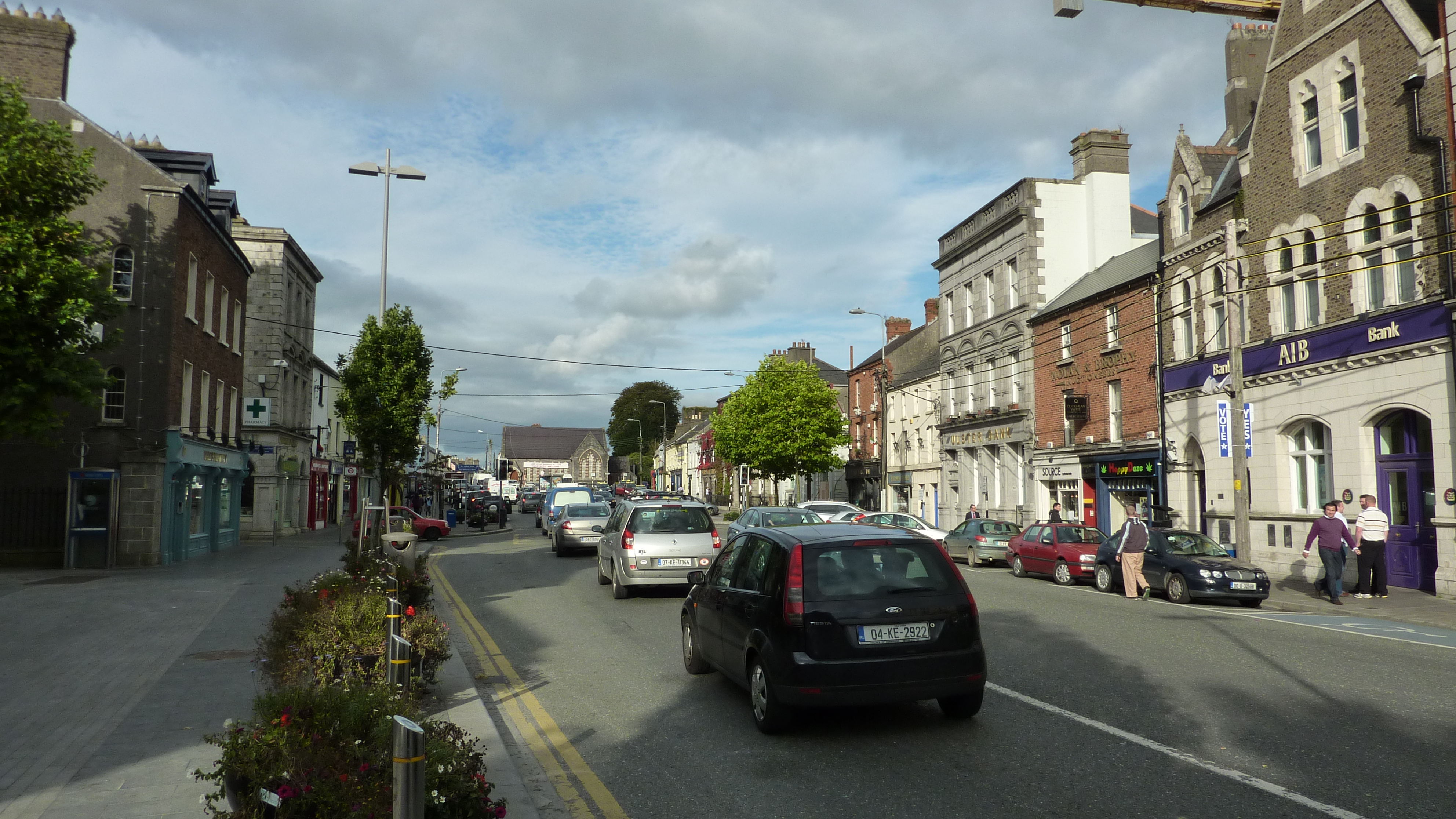 Main Street, Naas, County Kildare